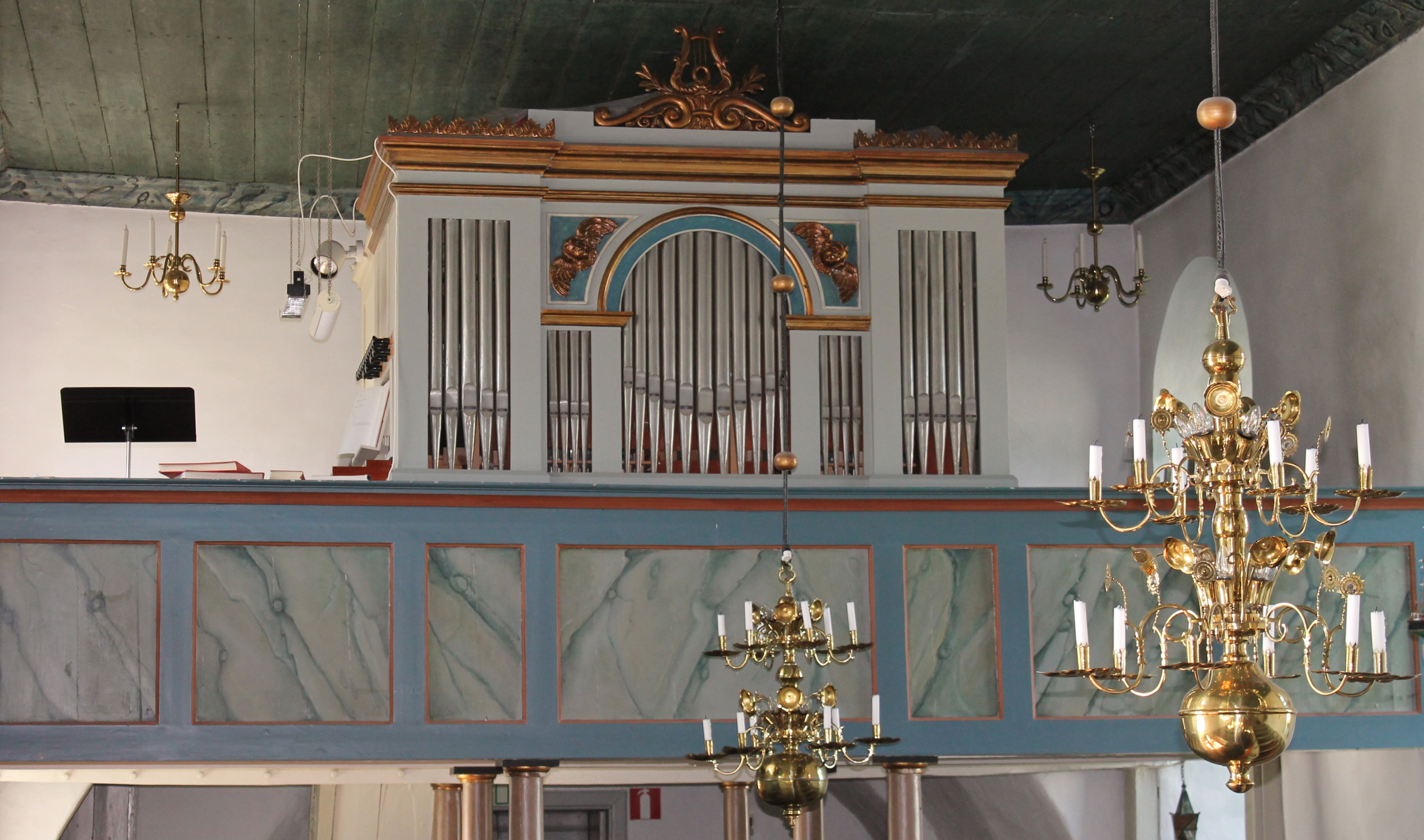 The organ with facade, designed by F. R. Ekberg 1875th.